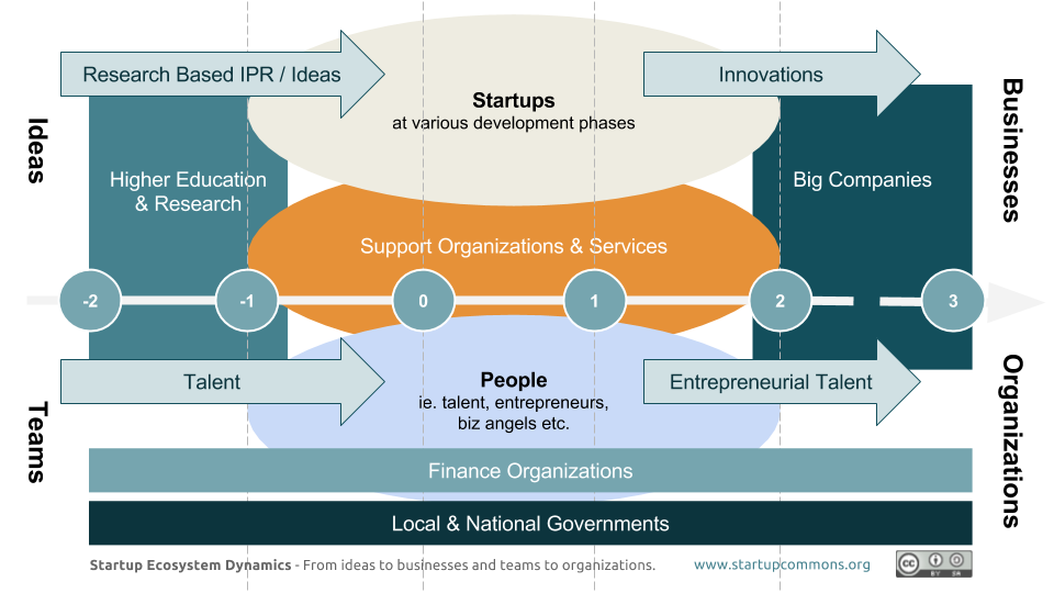 A startup ecosystem is formed by talent, startups in their various stages and various types of public, private and NGO organizations typically in a city region, interacting as an organic system to create new innovative companies. Different organizations focus on different parts of the ecosystem function, business vertical and/or startups at their specific development phases. Government, higher education, financial organizations and big companies are the cornerstone organizations in developing startup ecosystems.